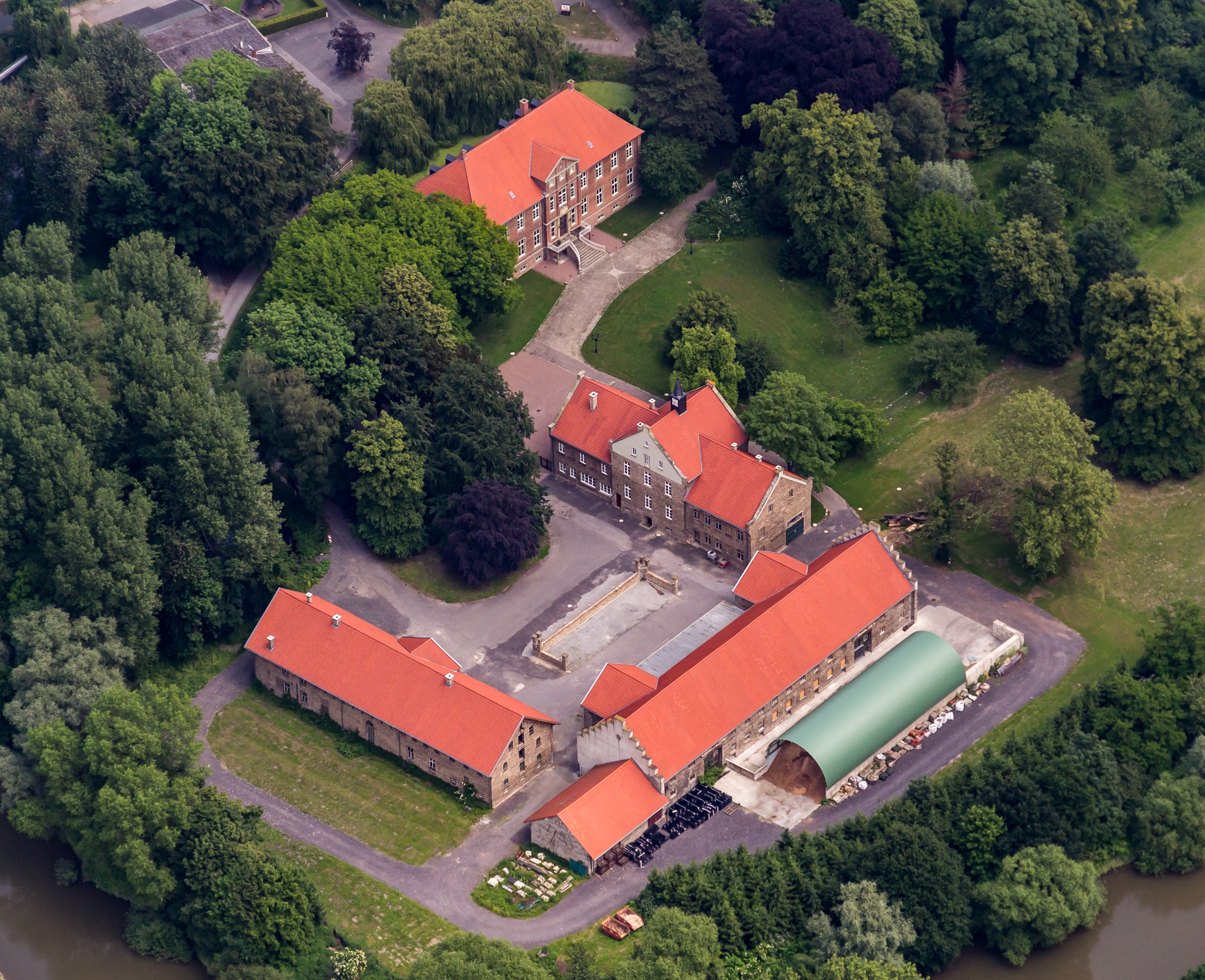 Uentrop Manor, Hamm, North Rhine-Westphalia, Germany This image shows a heritage building in Germany, located in the North Rhine-Westphalian city Hamm (no. 45).